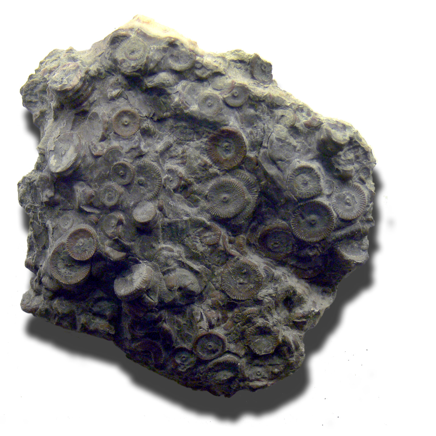 Laudonomphalus regularis (Natural historical museum of Lille, north of France), Givetian, Denvonian.